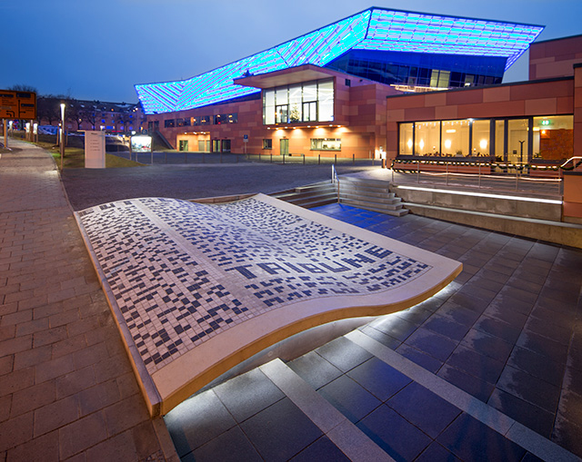 monument "Deutsche Tribüne II" for Johann Georg August Wirth made by sculptor Andreas Theurer near the "Freiheitshalle" in Hof; inauguration november 2012